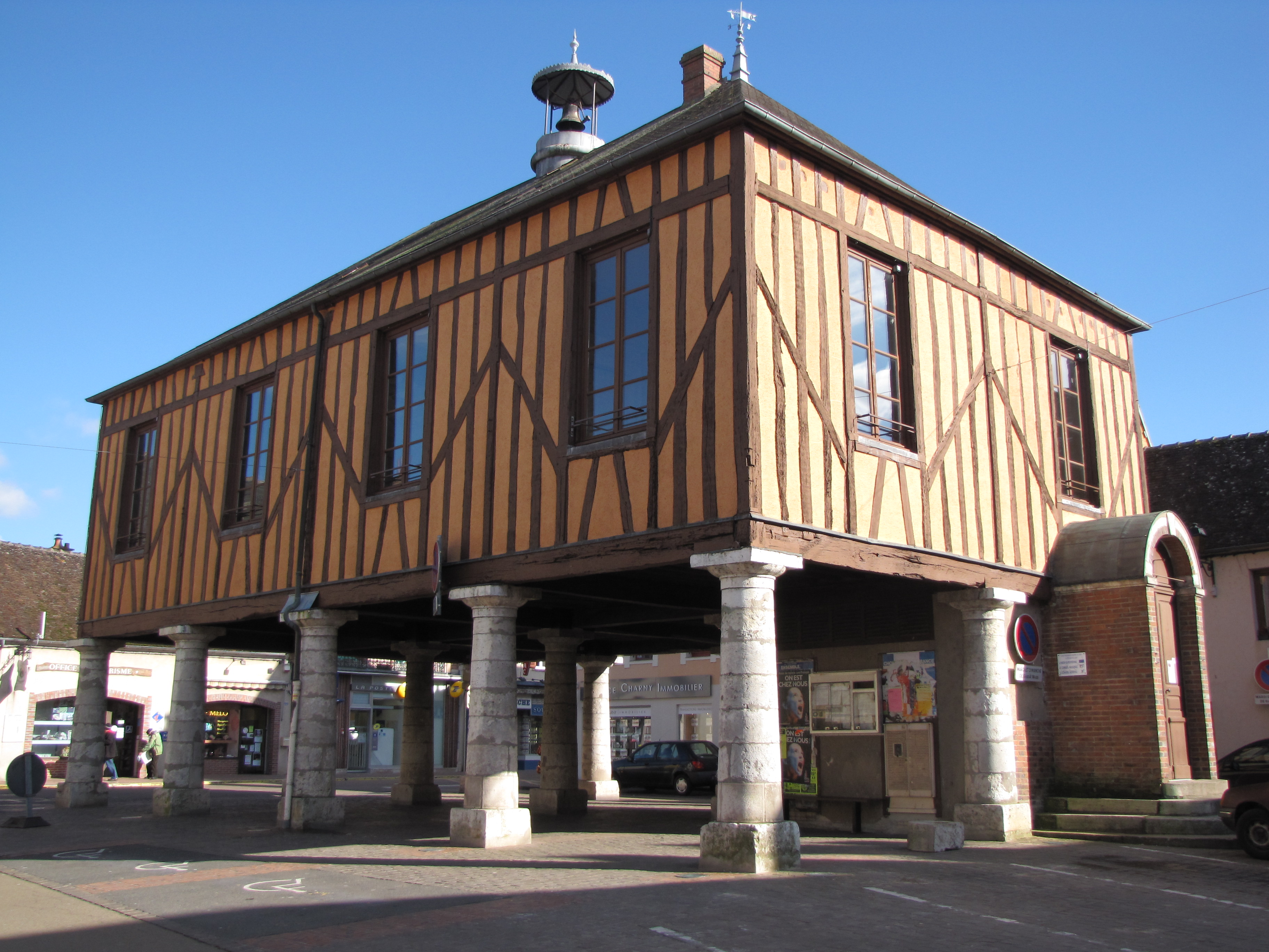 Charny, Yonne, Bourgogne, France. The market hall.